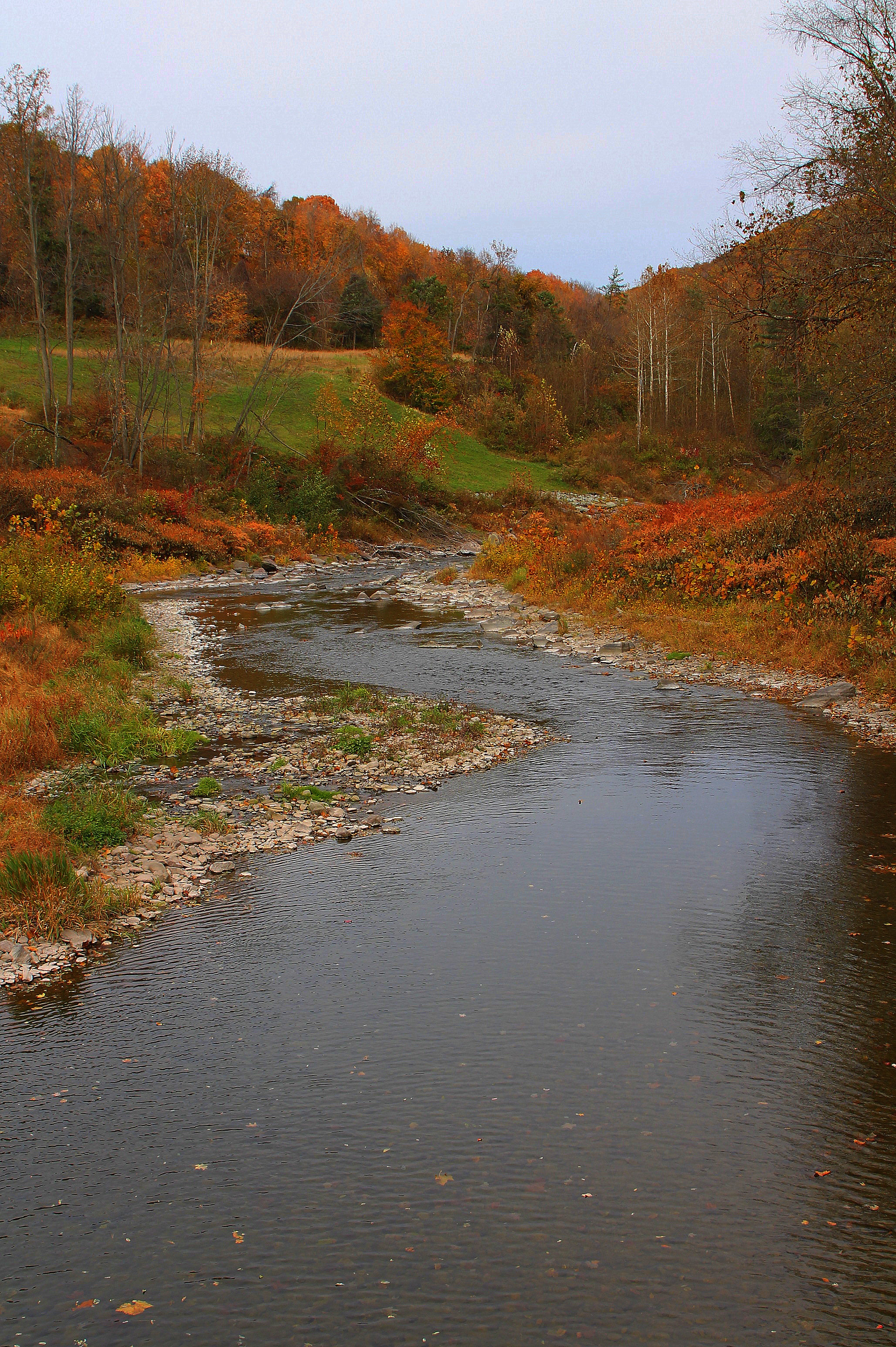 Bowman Creek looking downstream from State Route 3003